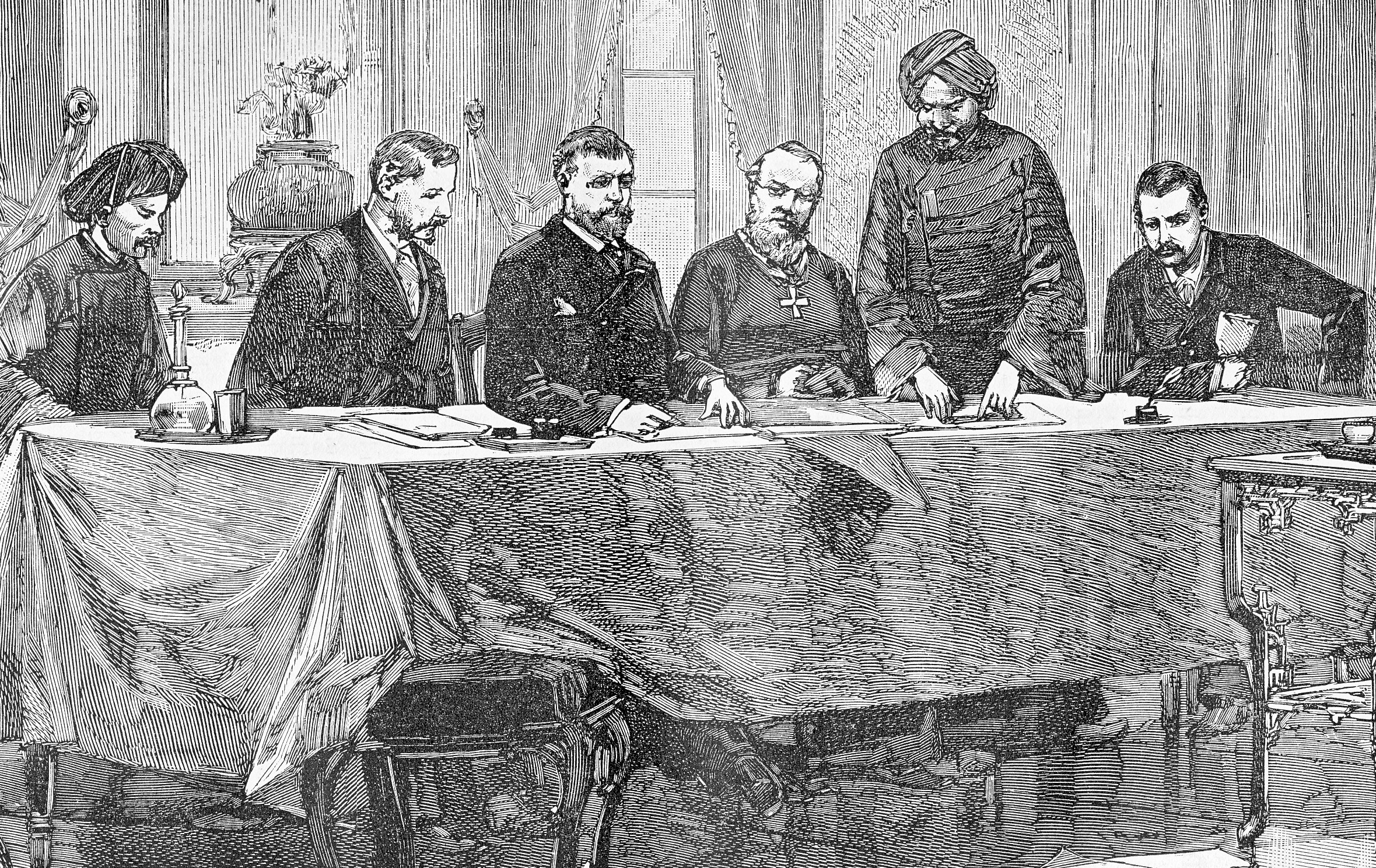 Signature of the Treaty of Hue, 25 August 1883 (left to right: Tran Dinh Tuc, lieutenant de vaisseau Palasne de Champeaux, Jules Harmand, Monsignor Gaspar, Nguyen Trong Hiep, M. Masse)